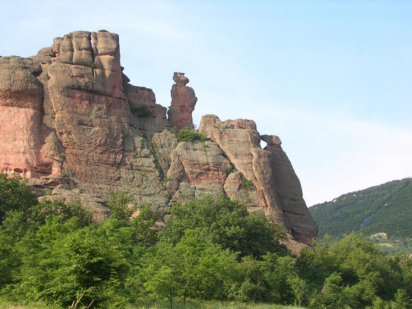 Belogradchik Rocks, Bulgaria. Author: Philip Philipov